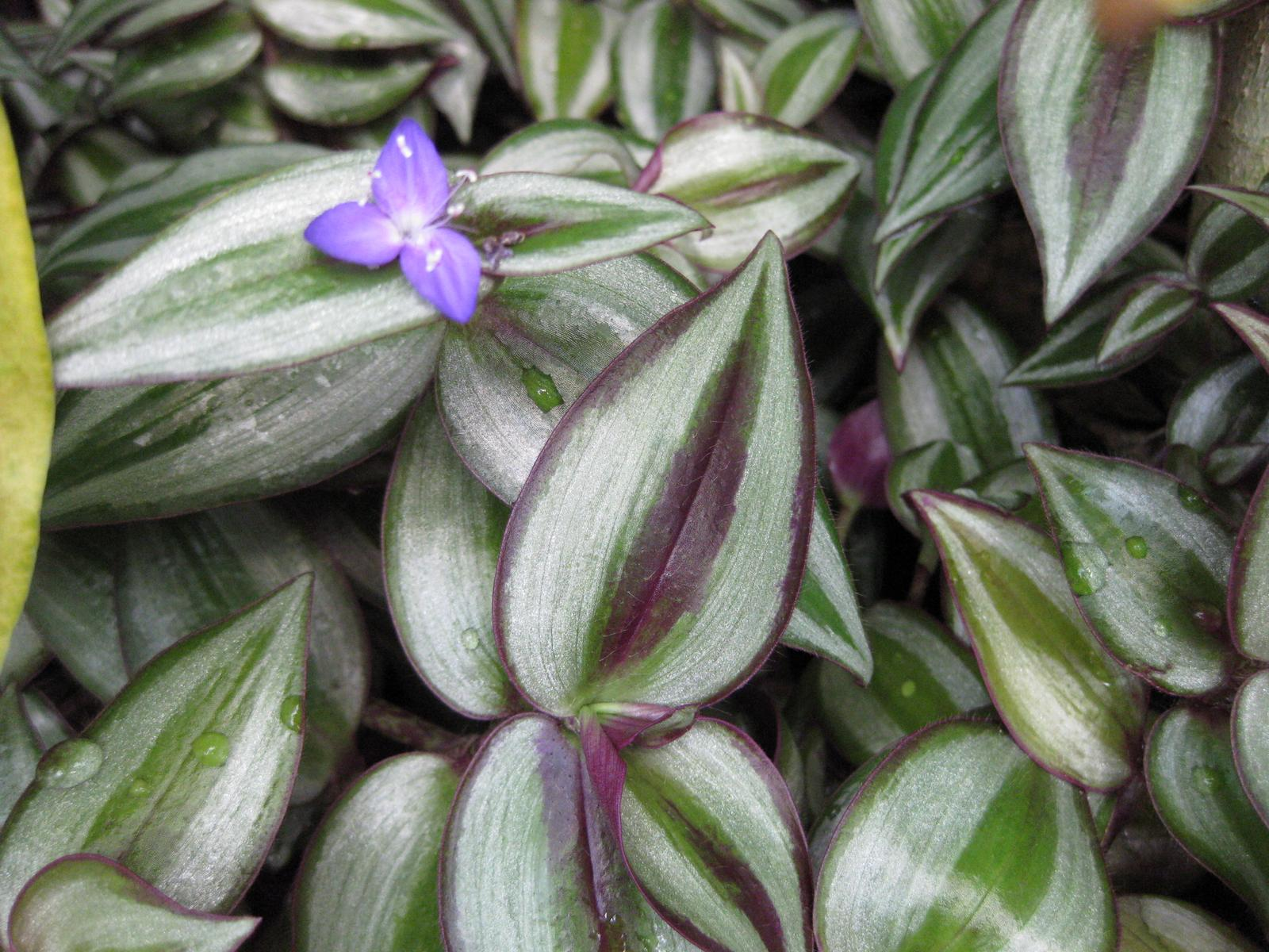 Photographed at Huntington Gardens (Los Angeles) in March